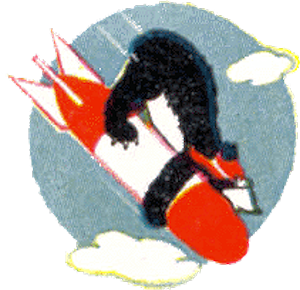 Emblem of the 473d Bombardment Squadron (World War II)